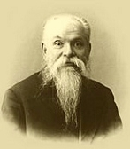 Portrait of Pavel Nekrasov (1853-1924), Russian mathematician